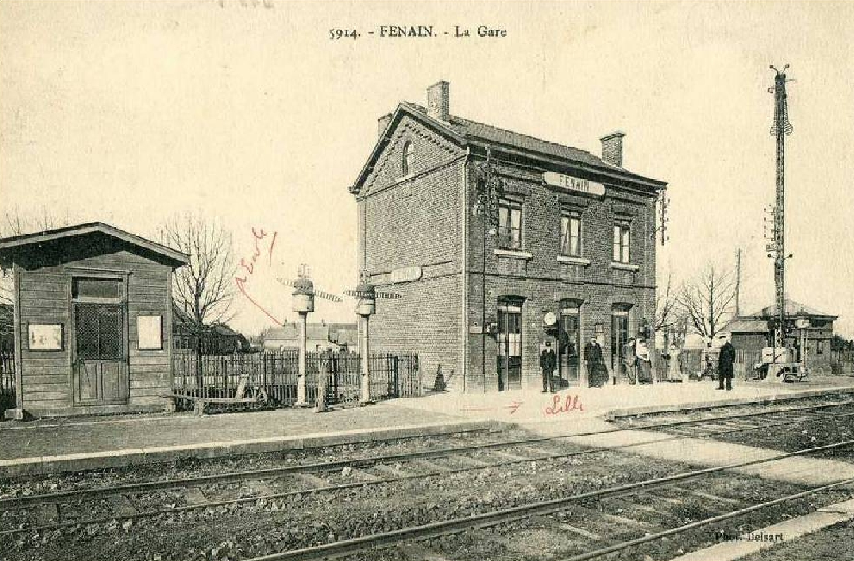 Former Railstation at Fenain, France.